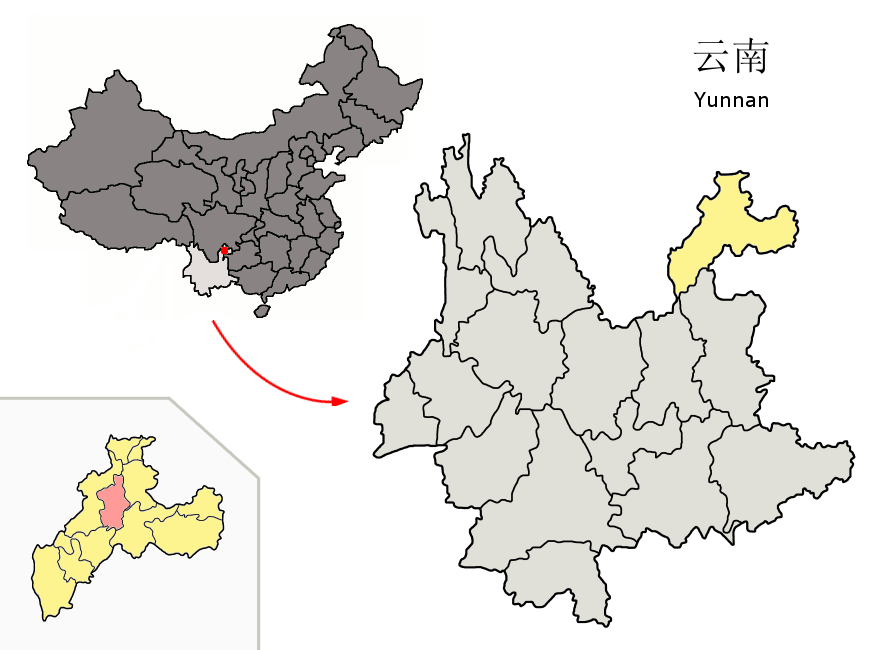 Location of Daguan County (pink) and Zhaotong Prefecture (yellow) within Yunnan province of China Map drawn in september 2007 using various sources, mainly : Yunnan province administrative regions GIS data: 1:1M, County level, 1990 Yunnan Counties map from Zhaotong Prefecture administrative map from .au